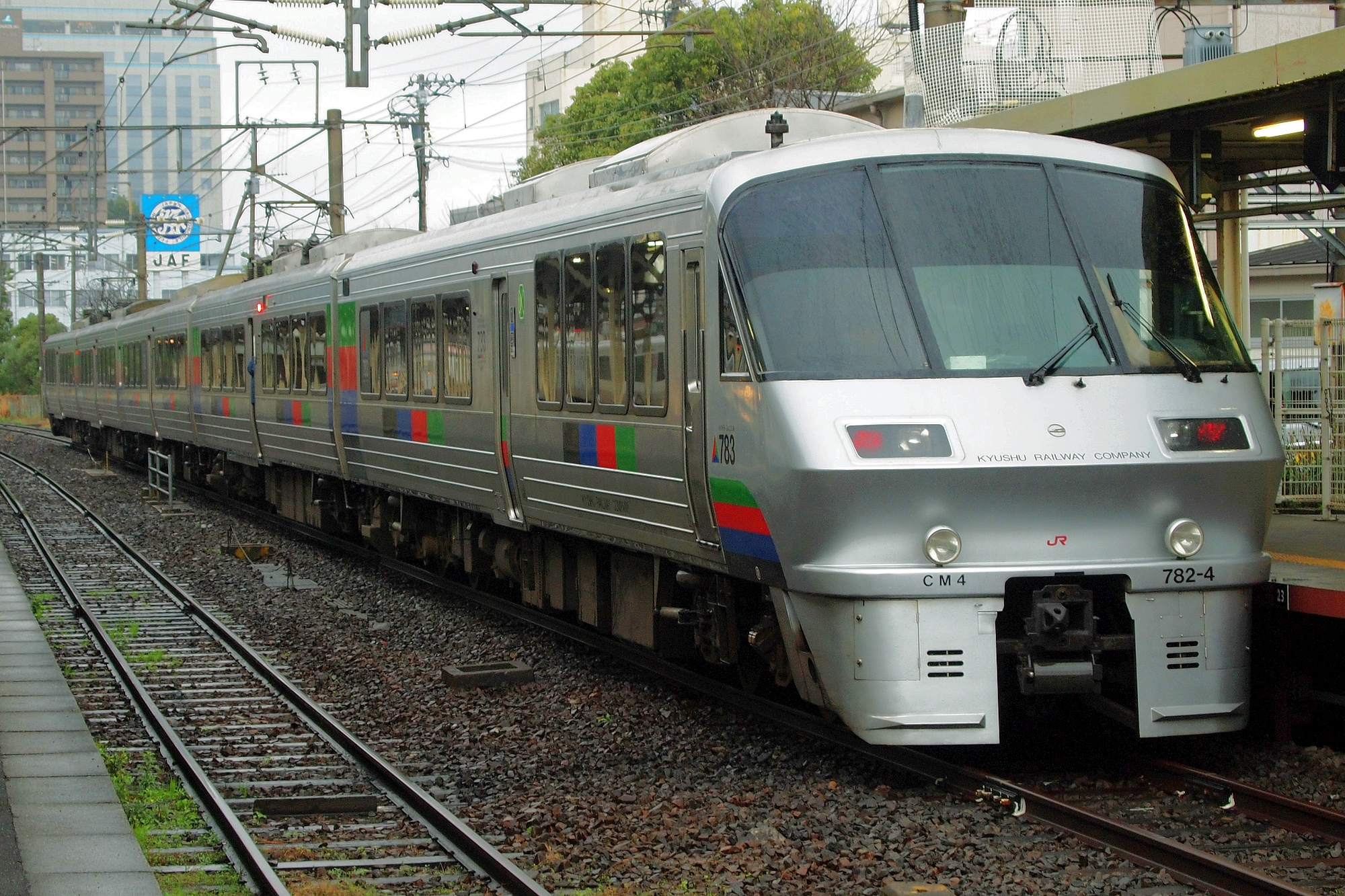 JR Kyushu 783 series EMU set CM4 at Nagasaki Station on a "Kamome" service